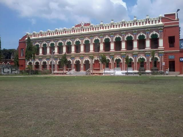 cb hxc